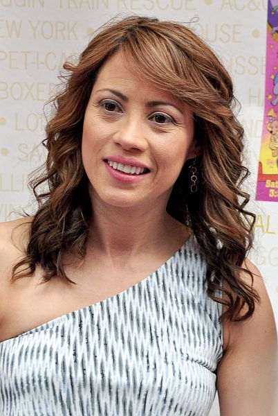 Actress Elizabeth Rodriguez attends 13th Annual Broadway Barks Benefit on July 9, 2011 at Shubert Alley in New York City. (Photo © Nick Stepowyj)